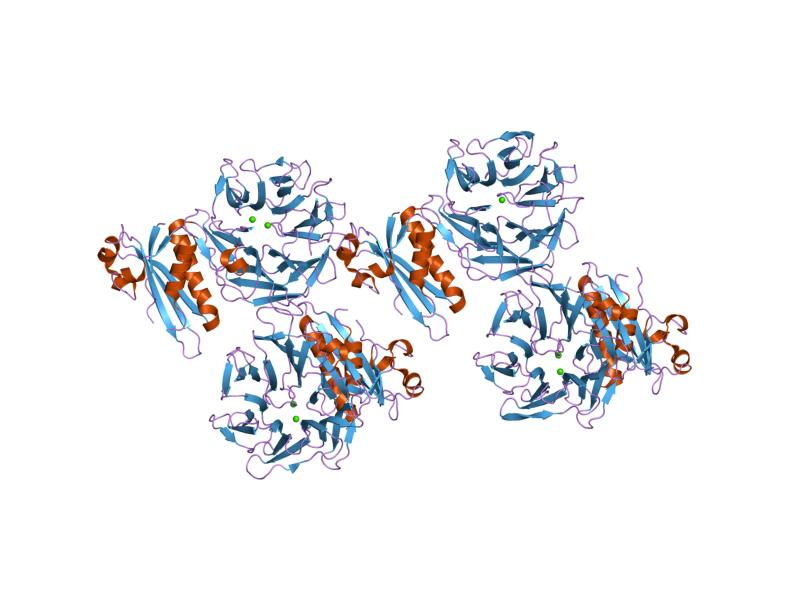 Cartoon representation of the molecular structure of protein registered with 2ivz code.